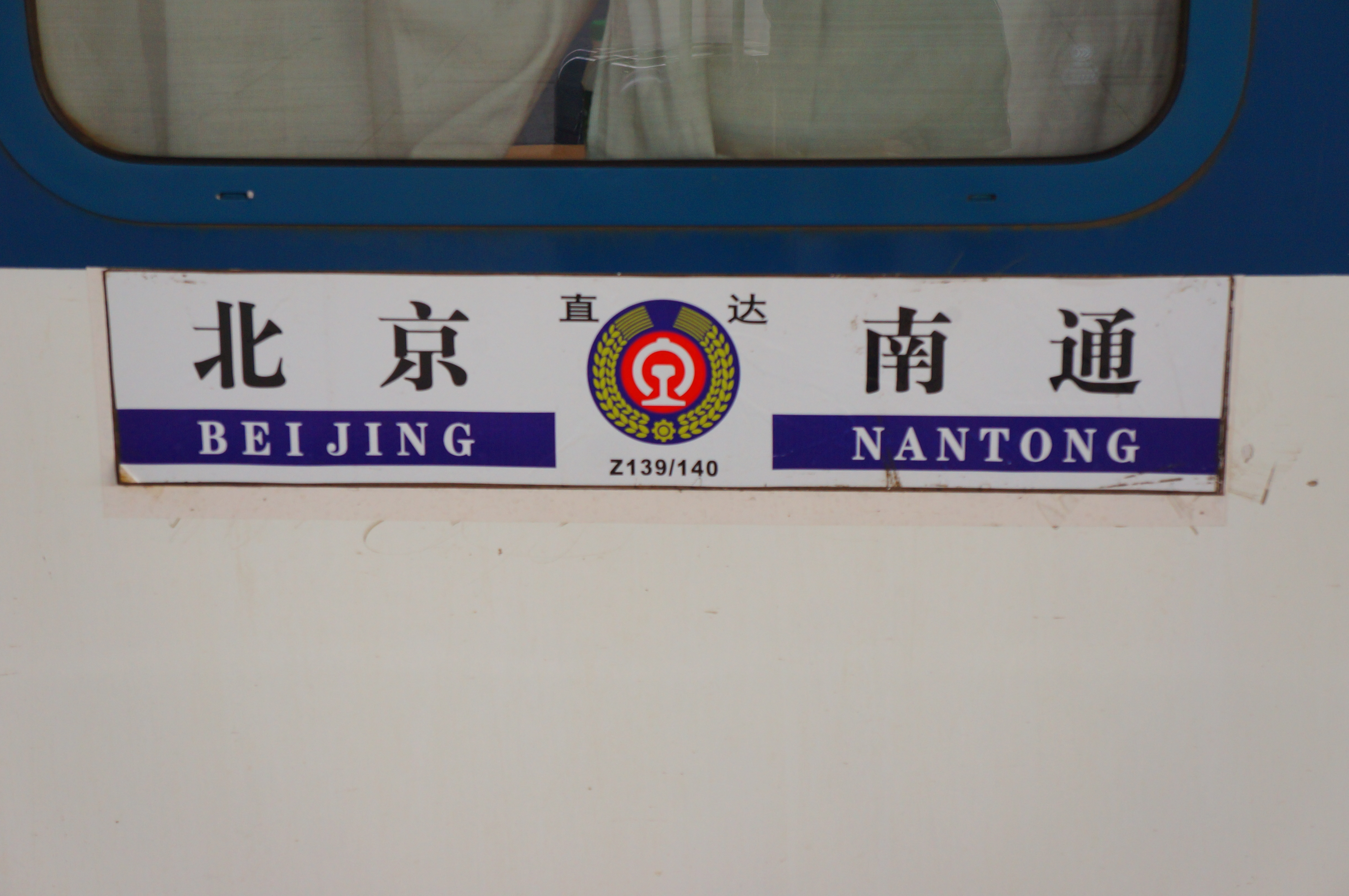 Z139 140 information board (Beijing to Nantong) in 201606